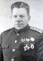 Рейтер Макс Андреевич (1886 — 1950) — советский военачальник